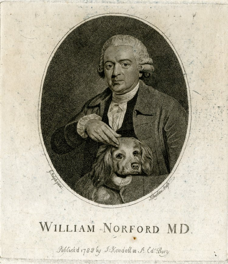 Portrait of William Norford (1715–1793), English surgeon and writer.